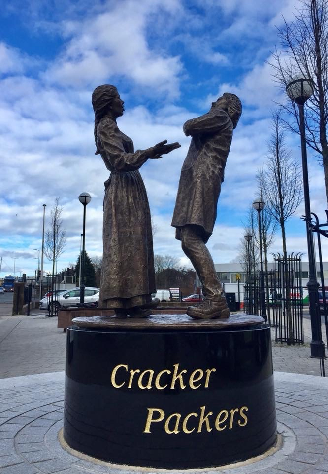 The Cracker Packers bronze sculpture in Carlisle, 2018